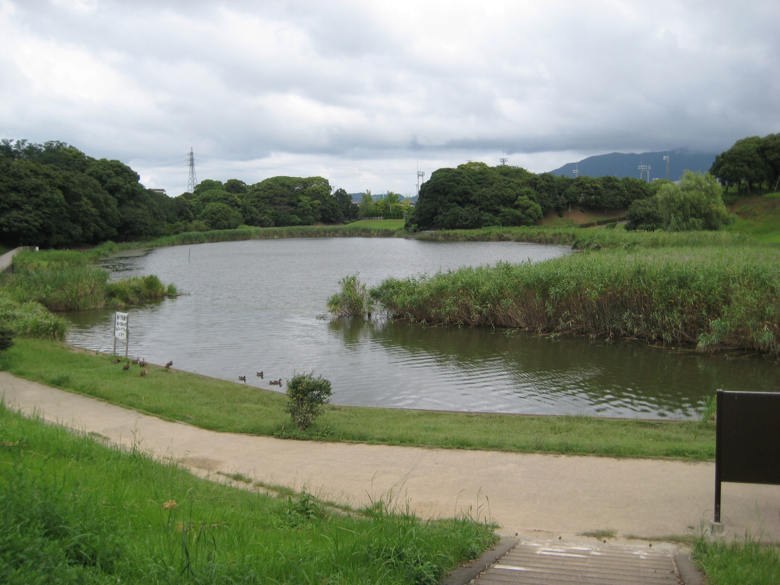 chidorigaike